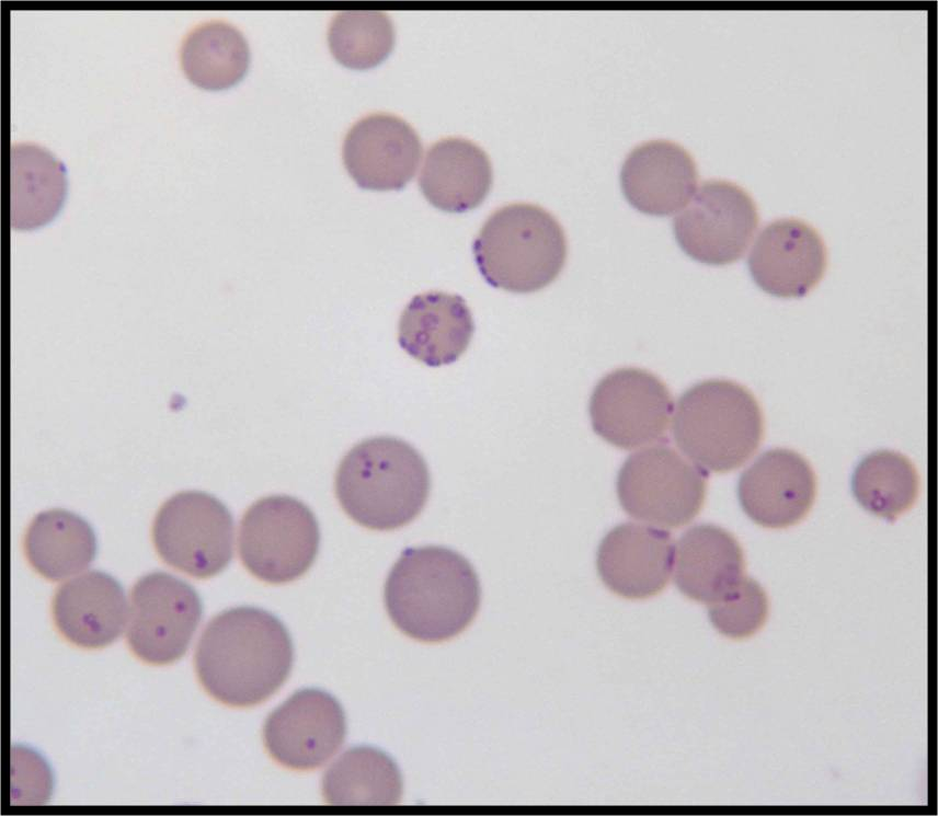 M. Haemofelis, Wright-Geiemsa Staining 100X